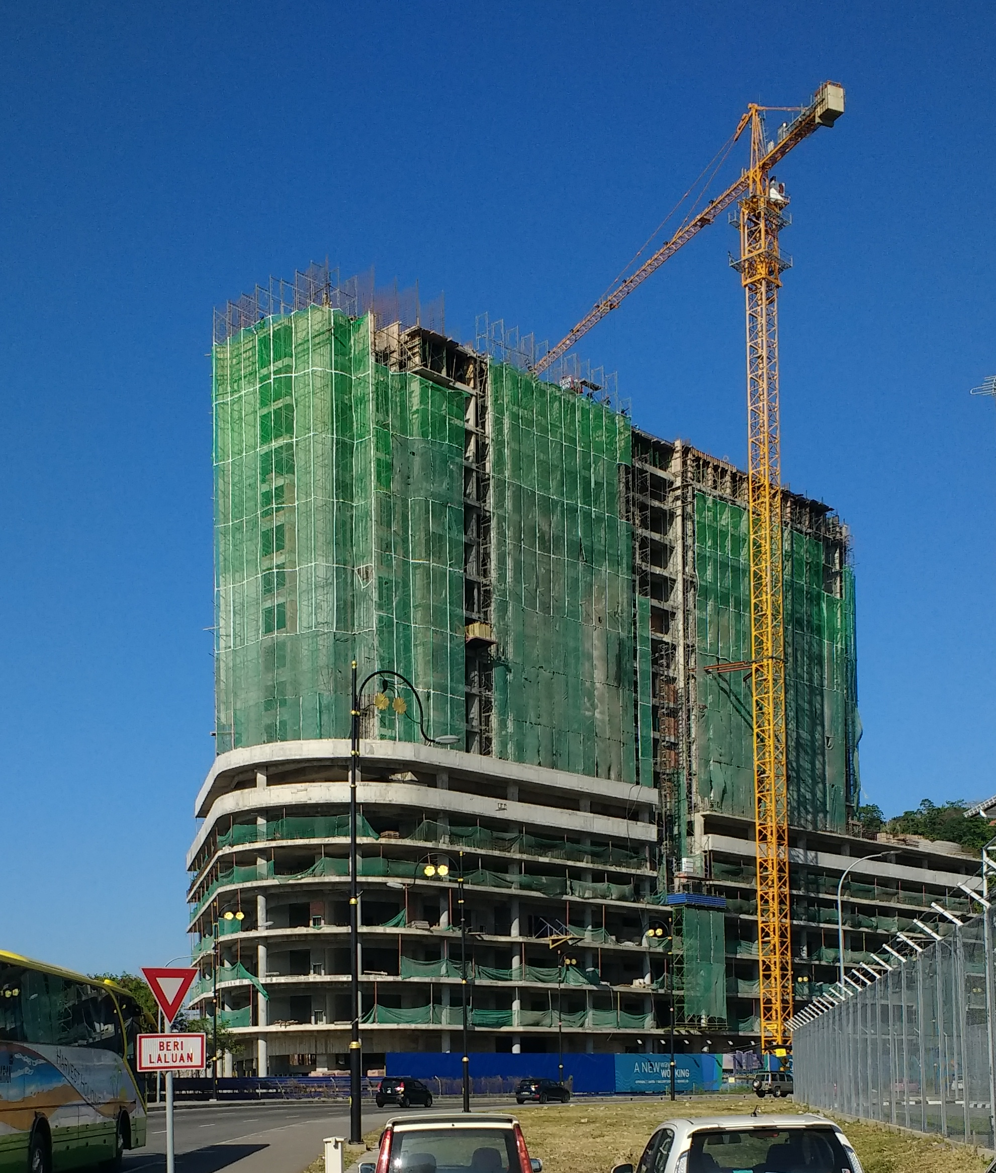 Jesselton Quay under construction in Kota Kinabalu, February 2019.